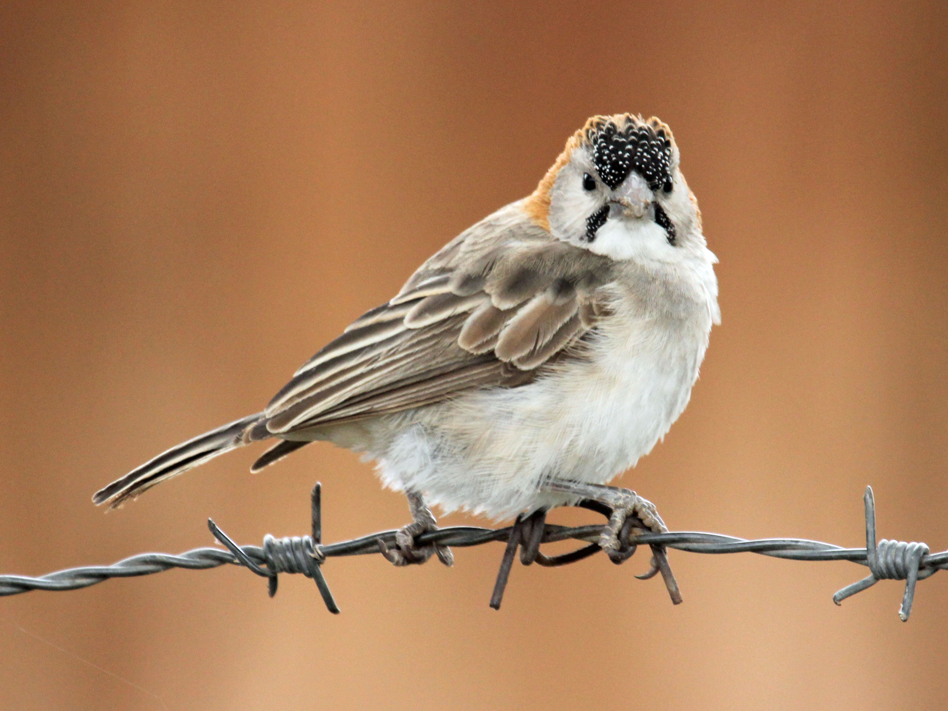 Speckle-fronted Weaver (Sporopipes frontalis) - slightly north of Masai Mara in Kenya.